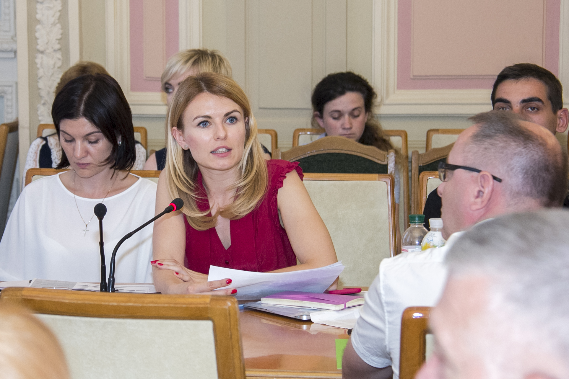 Lesia Vasylenko,the head of Legal Hundred NGO at The Committees of The Verkhovna Rada of Ukraine